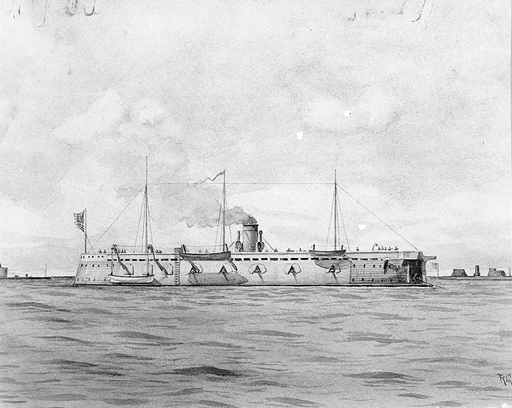 Ink wash drawing of USS New Ironsides ready for action. US Naval Historical Center NH 60273